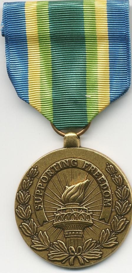 The Armed Forces Civilian Service Medal (AFCSM) is established to recognize the contributions and accomplishments of the U.S. Department of Defense civilian workforce who directly support the military forces, when those members are engaged in military operations of a prolonged peacekeeping or humanitarian nature.